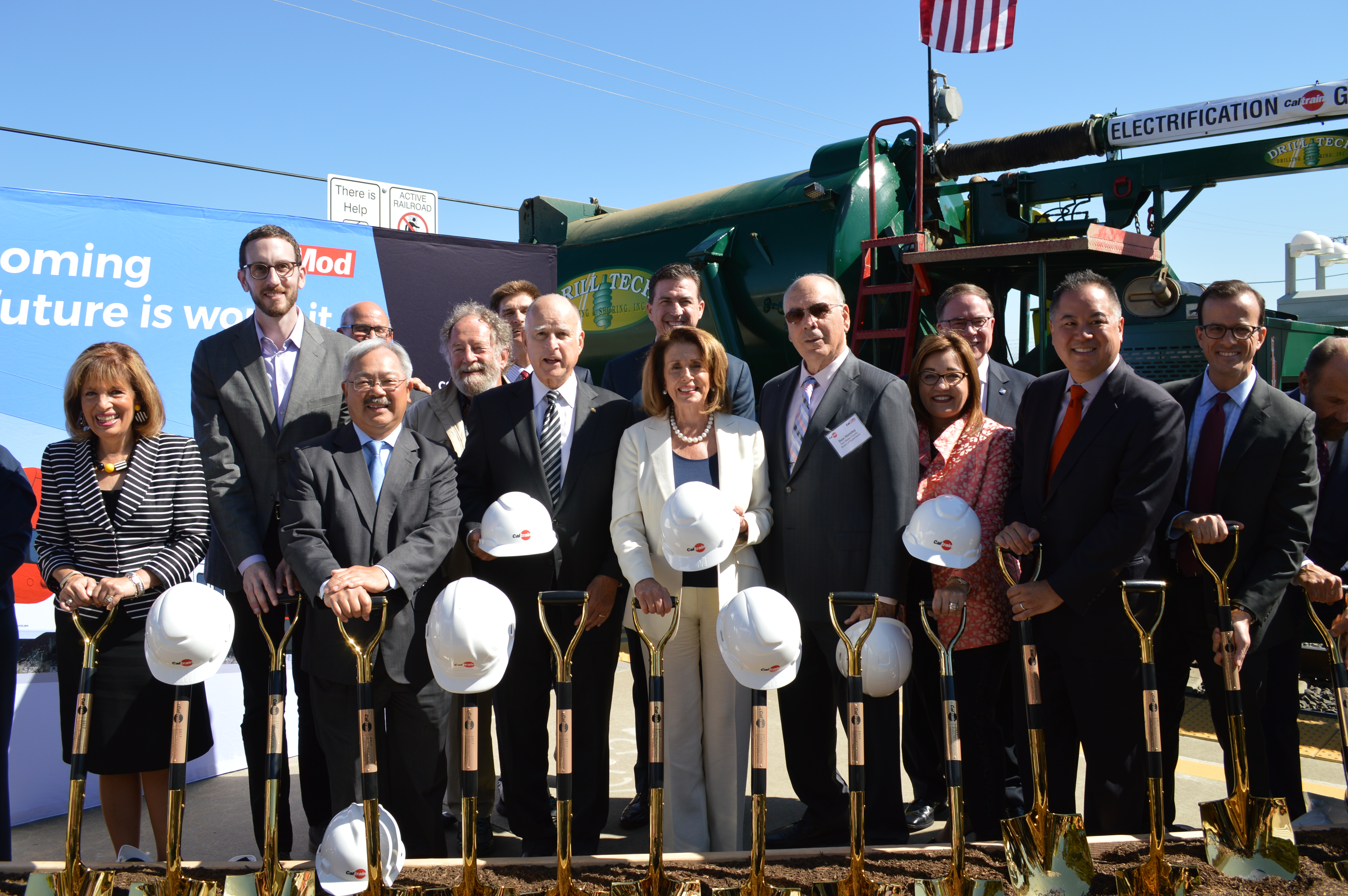 Congresswoman Pelosi joins Governor Jerry Brown, Representatives Anna Eshoo and Jackie Speier, Mayor Ed Lee, and community leaders for the Caltrain Electrification Project groundbreaking at the Millbrae Caltrain Station.